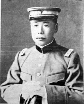 Kan Chaoxi